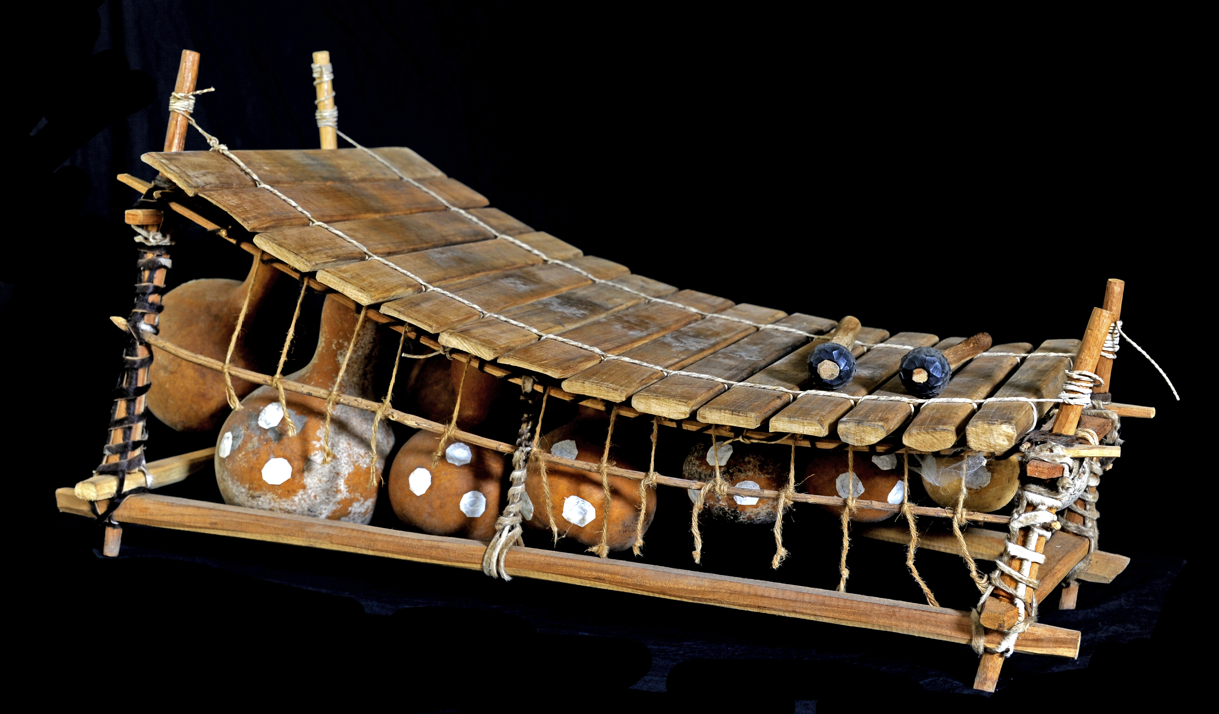 a Ghnaian Gyil